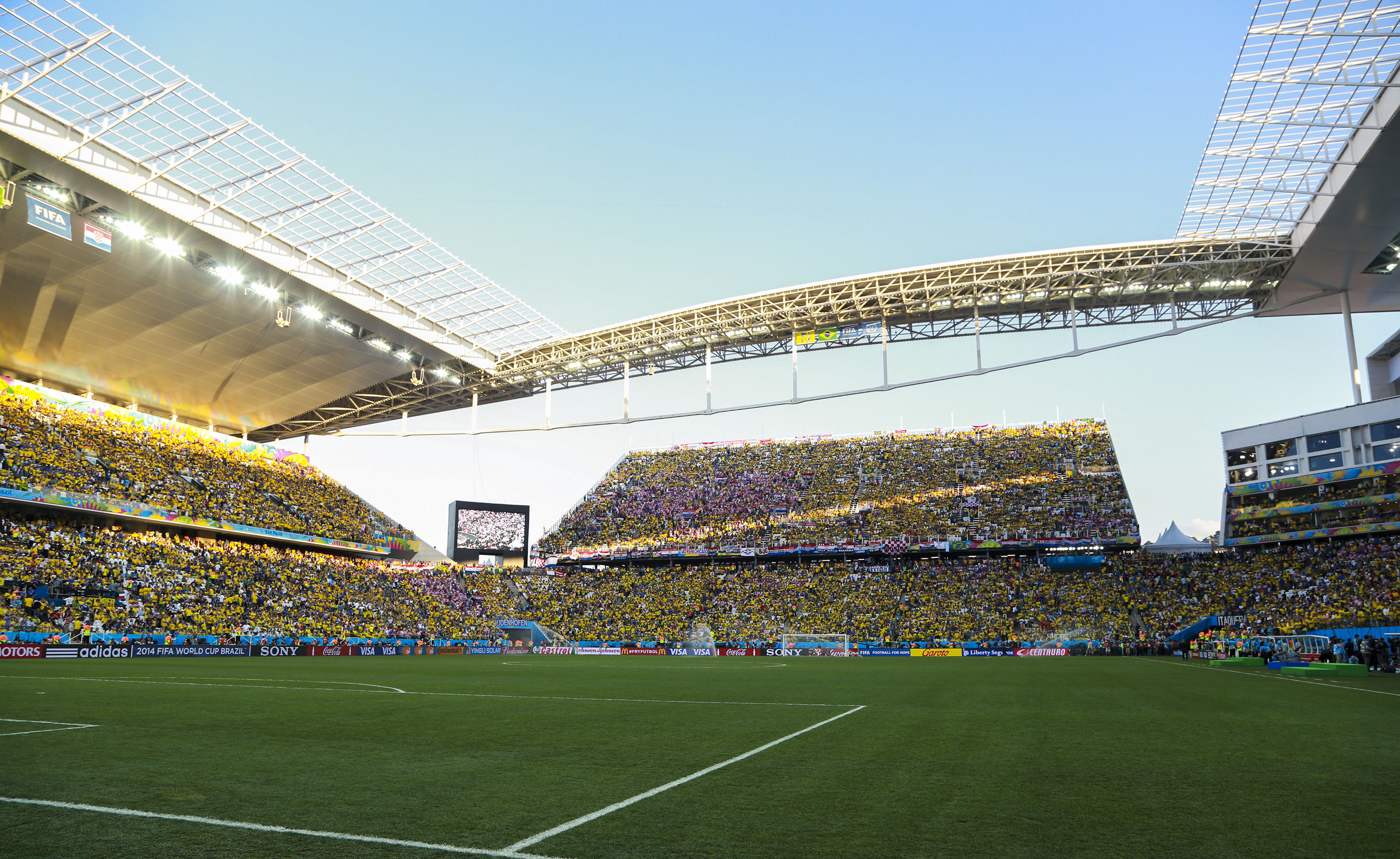 Brazil and Croatia match at the FIFA World Cup (2014-06-12; fans)